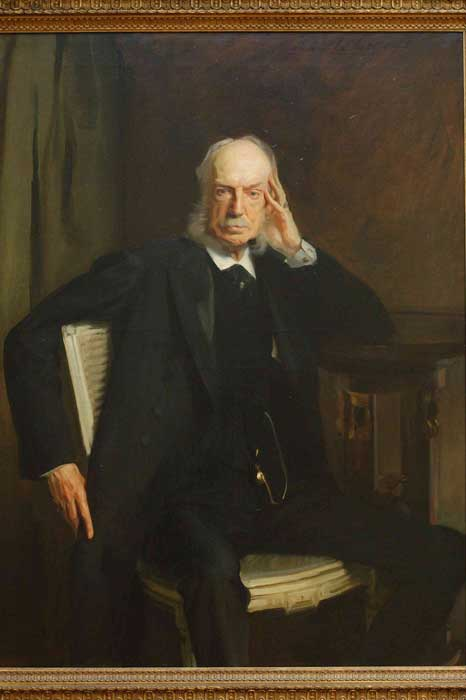 Henry G. Marquand John Singer Sargent -- American painter 1897 Metropolitan Museum, New York Oil on canvas 132.1 x 106 cm (52 x 41 3/4 in.) Gift of Trustees, 1897 97.43 Jpg: The Met / jasonj05's photostream